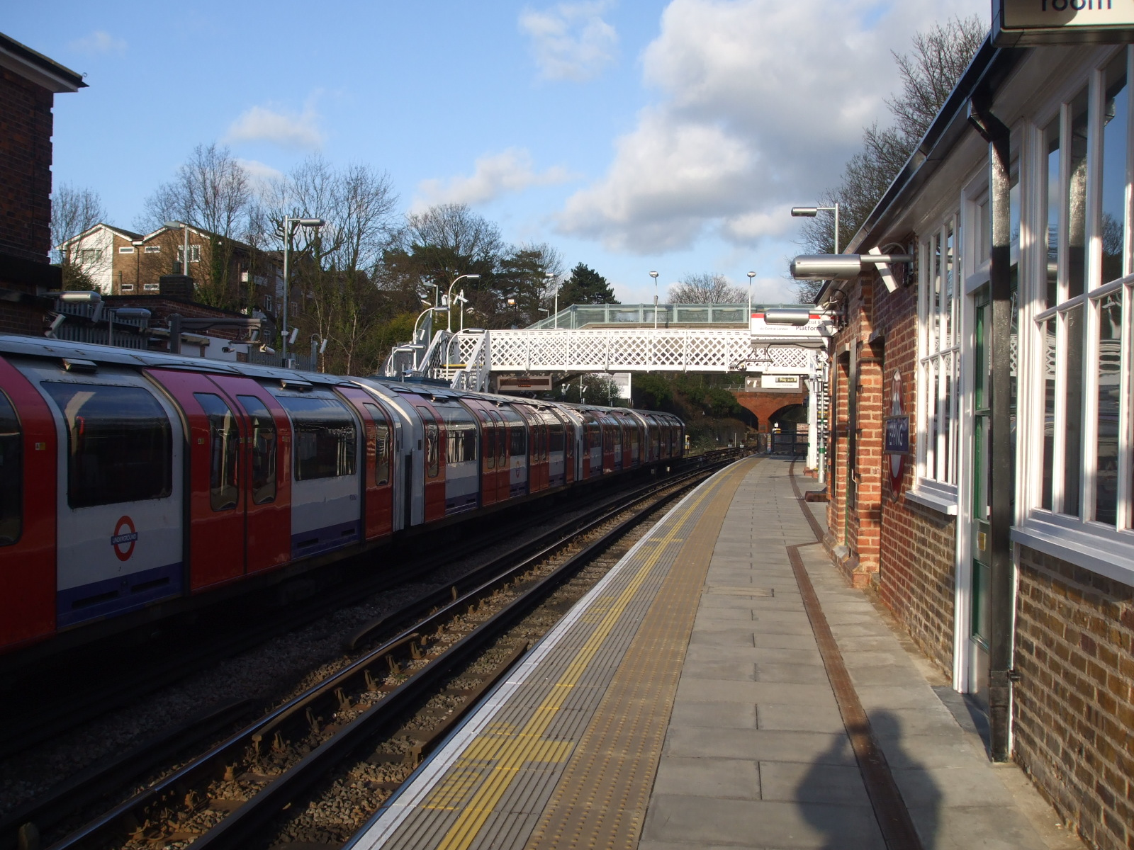 Epping tube station looking north, with a train awaiting return to central London. The station has acted as a terminus since long before the Ongar shuttle closed in 1994.